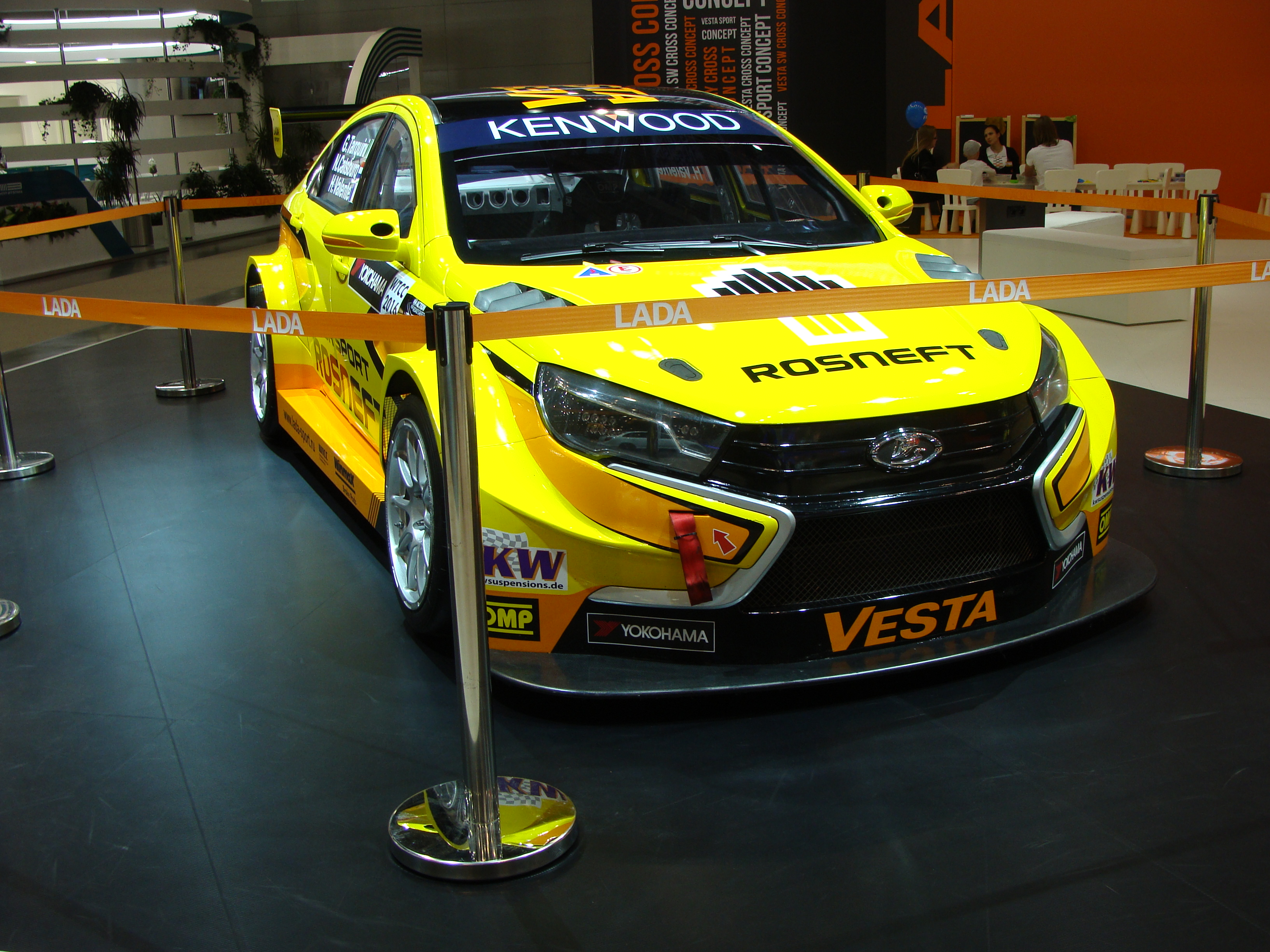 Lada Vesta sport on Moscow International Automobile Salon 2016.